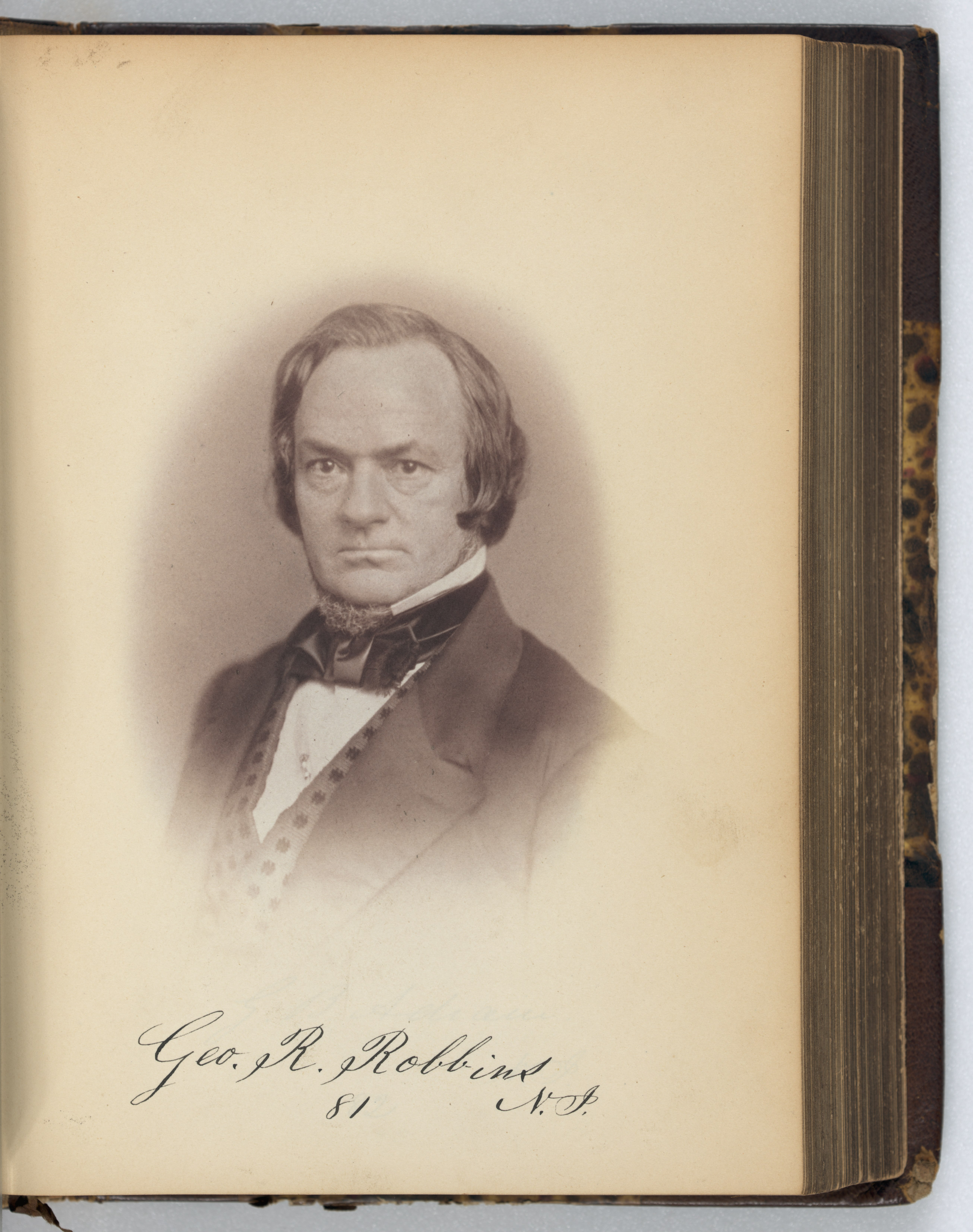 Title: George R. Robbins, Representative from New Jersey, Thirty-fifth Congress, half-length portrait Abstract/medium: 1 photographic print : salted paper ; 19.7 x 14.3 cm.